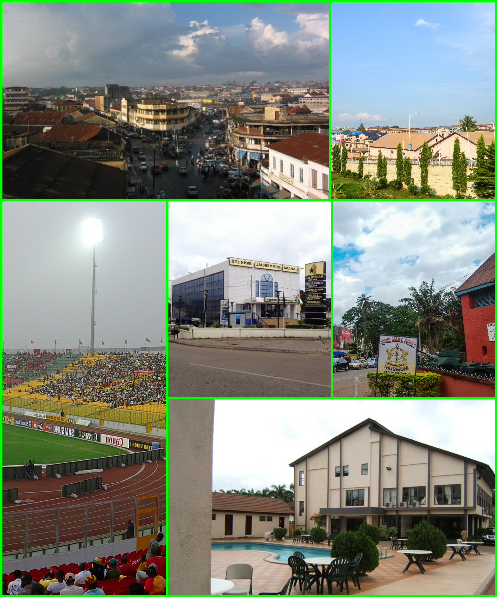 Aerial view of Central Business District (CBD) in Kumasi.